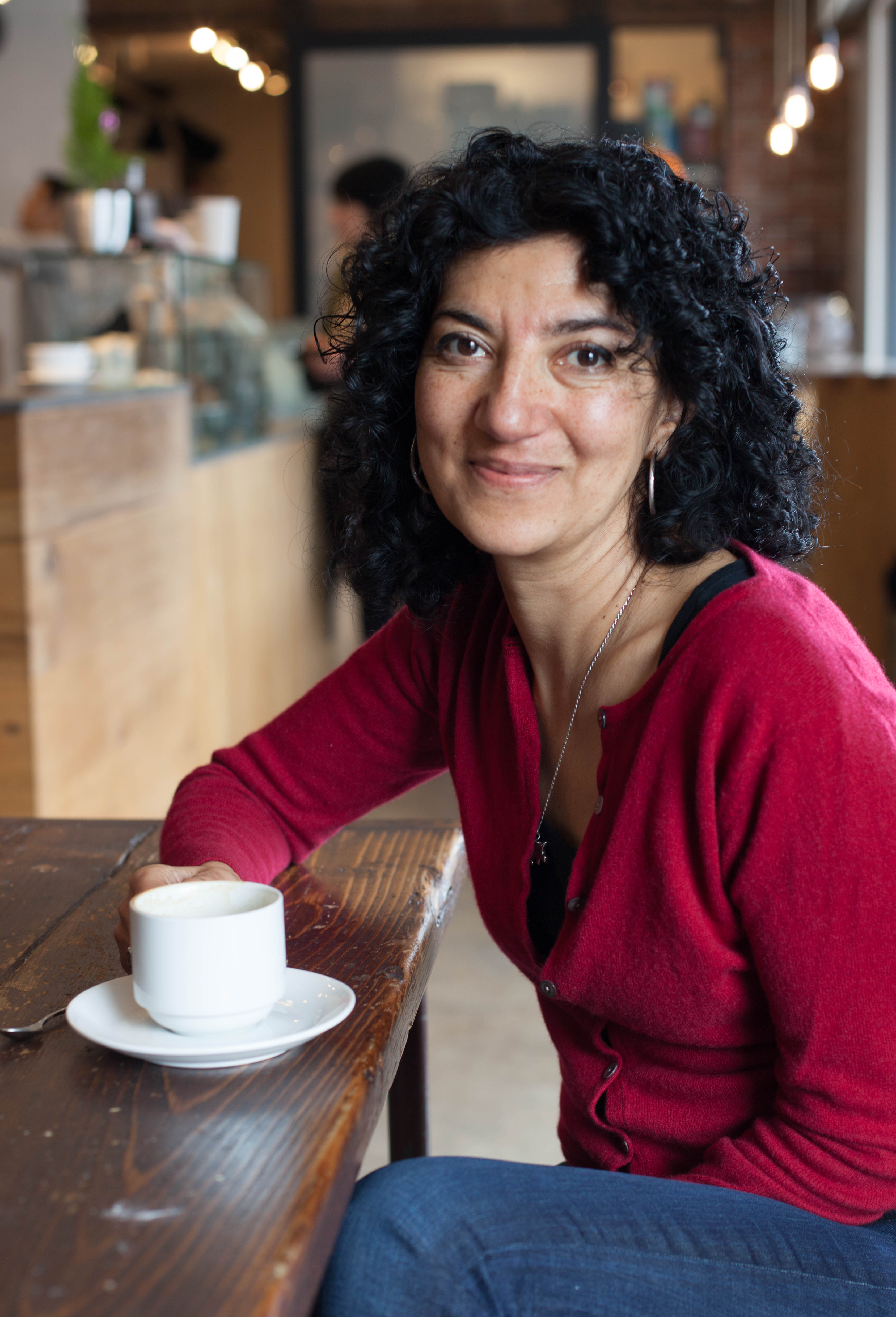 Meeru Dhalwala and Vikram Vij, the team behind three award-winning Metro Vancouver restaurants, including the world renowned Vij’s Restaurant. They have co-authored two acclaimed cookbooks and are active in sustainable agriculture and business mentorship. Photo credit: Leila Kwok